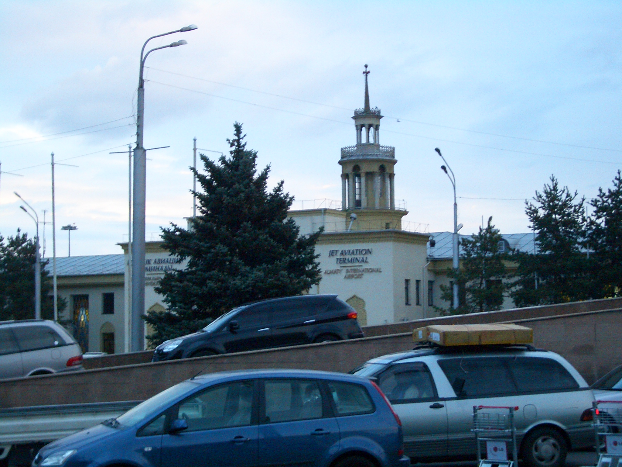 In Almaty International Airport. This is the old terminal (to the left of the new one), now relegated to general aviation